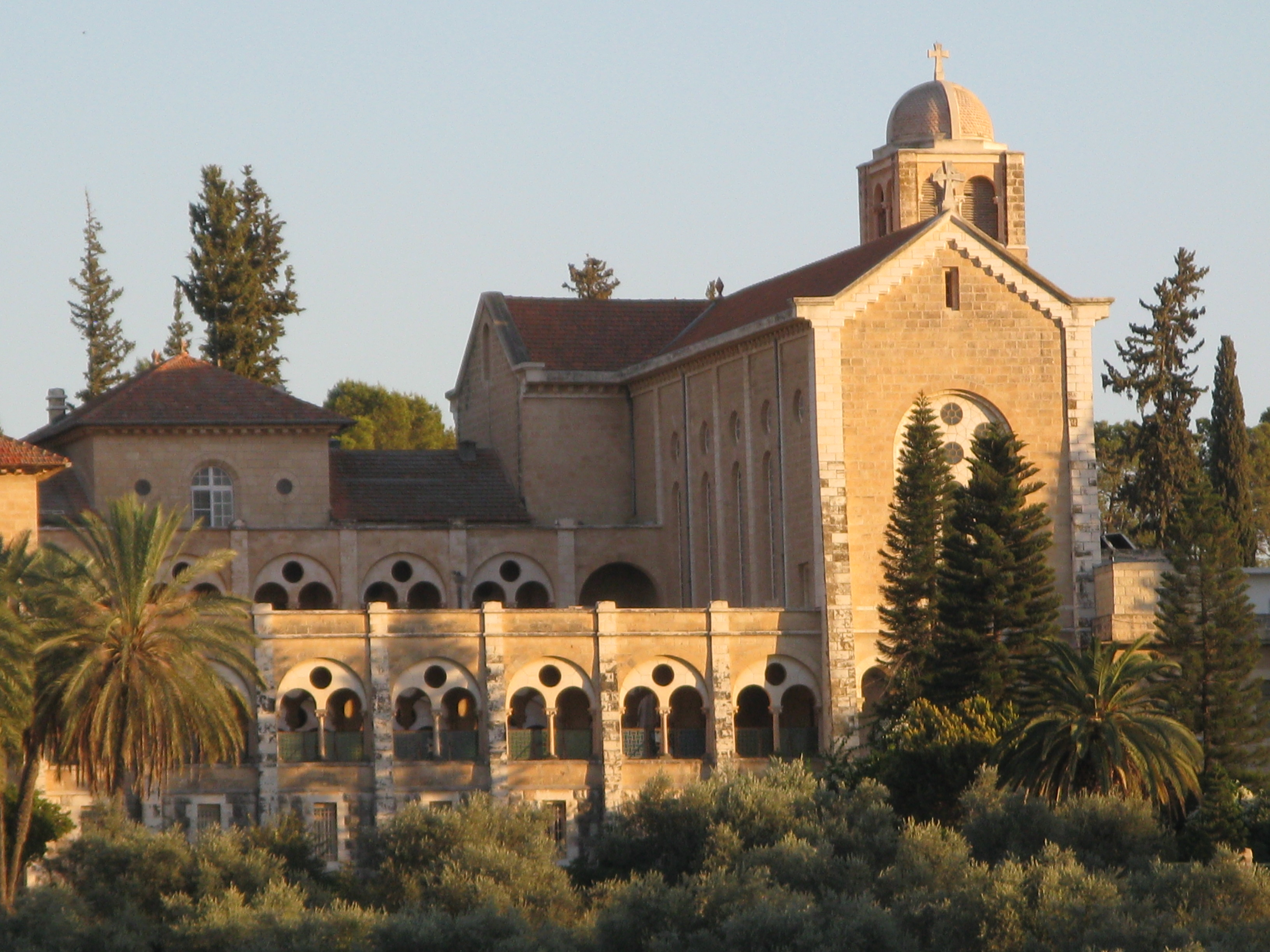 Latrun Monastery.